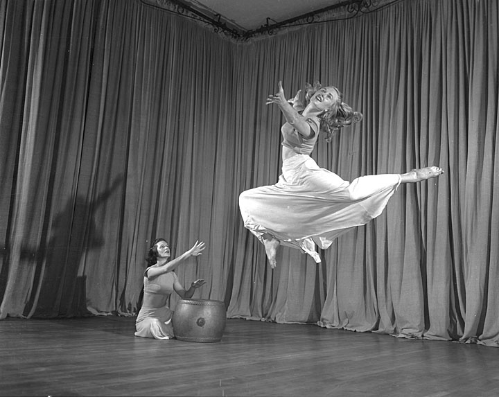 One woman dances while another student accompanies her on a drum in an interpretive dance class at the University of Wisconsin-Madison 1949